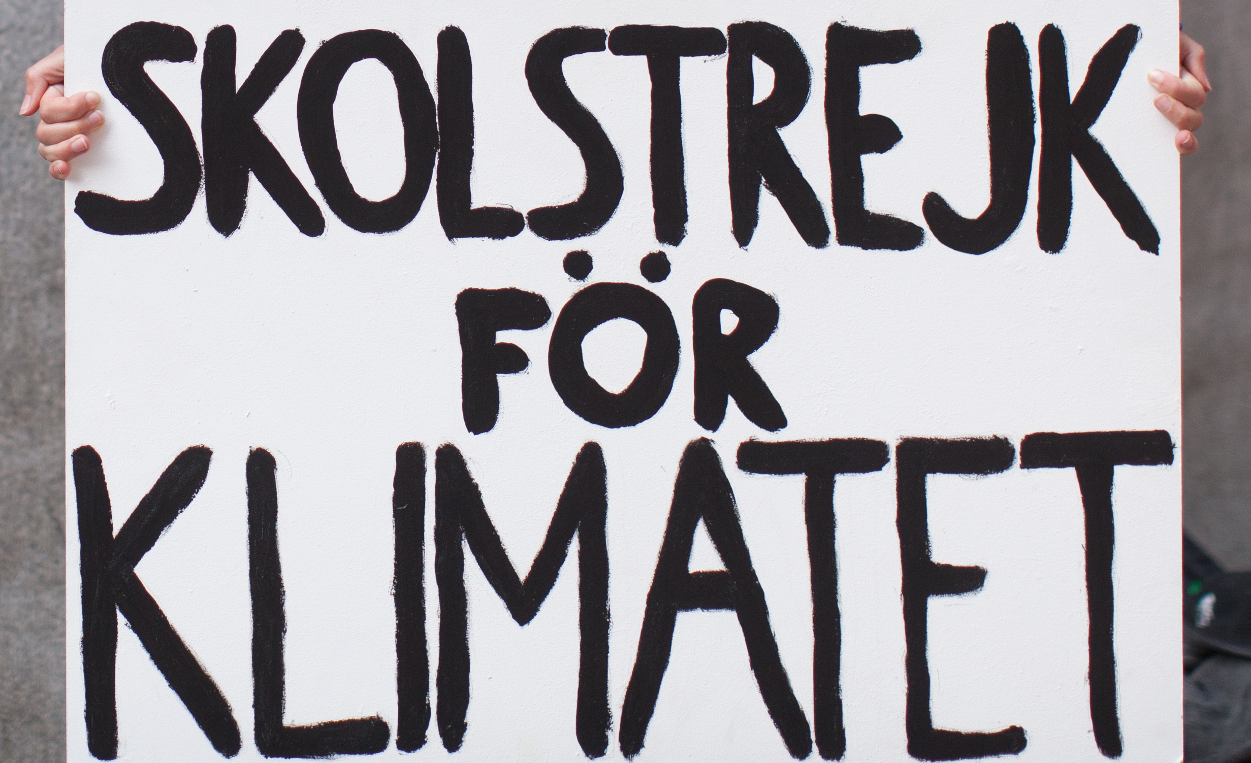 In August 2018, outside the Swedish parliament building, Greta Thunberg started a school strike for the climate.